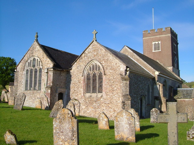 St Michael's parish church, Gittisham, Devon, seen from the northeast, showing the chancel (centre), south chapel (left) and west tower (right)